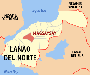 Map of the Lanao del Norte showing the location of Magsaysay